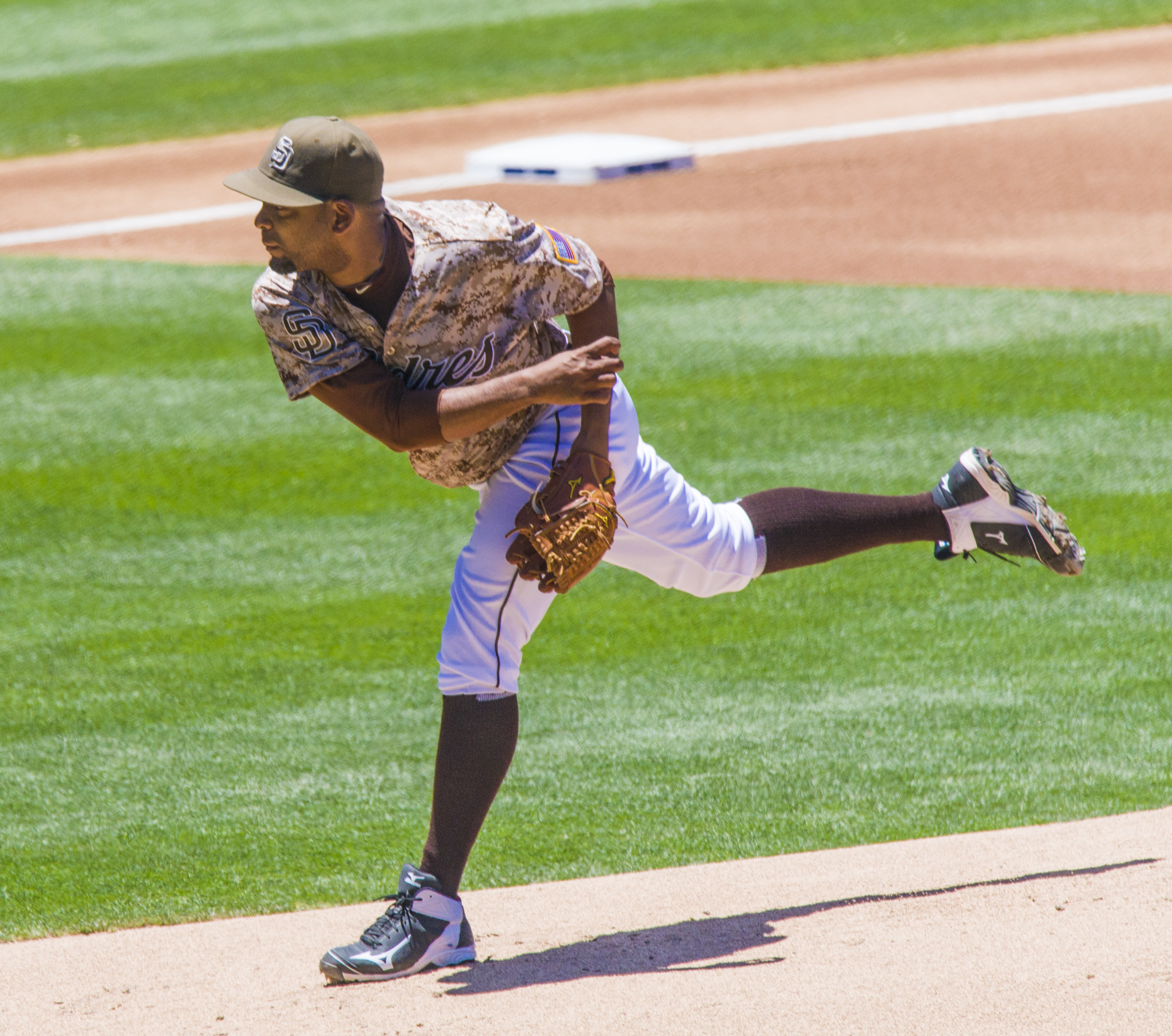 Odrisamer Despaigne pitching for the San Diego Padres on July 26th, 2015